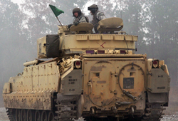 1-185 A CO 1-185 Company Commander CPT Riley and his crew Train for Kosovo Deployment in 2008